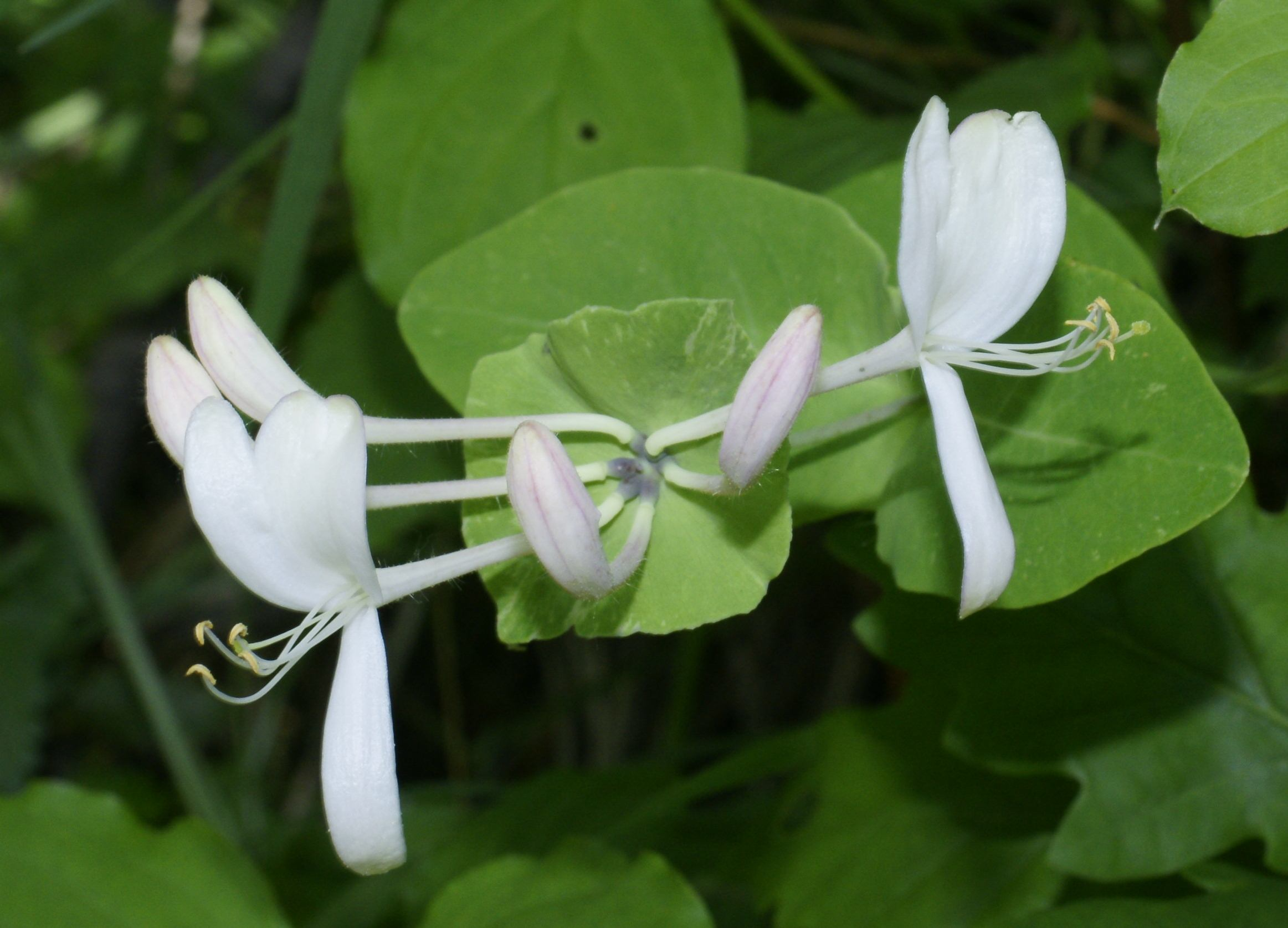 Lonicera caprifolium, Kernberge near Jena (Germany)